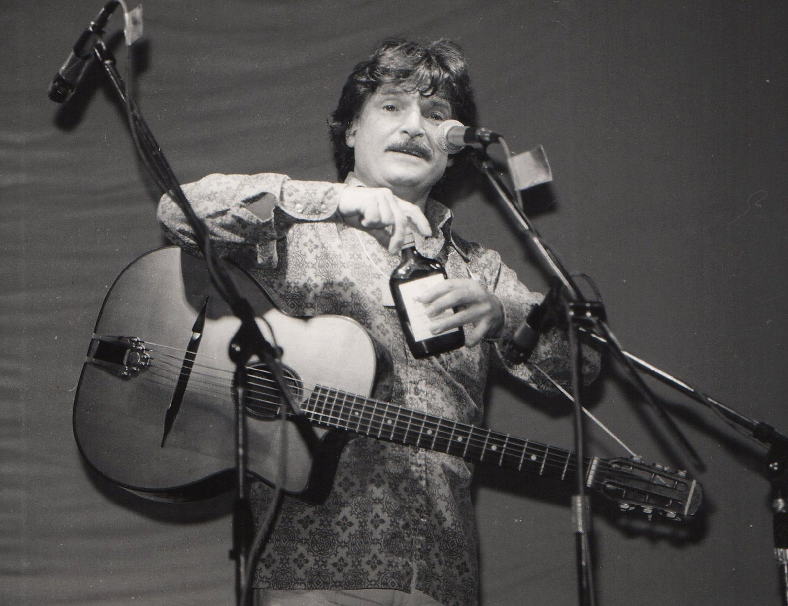 Diz Disley (musician) on stage at the 1981 Essex Festival (photograph by Tony Rees)